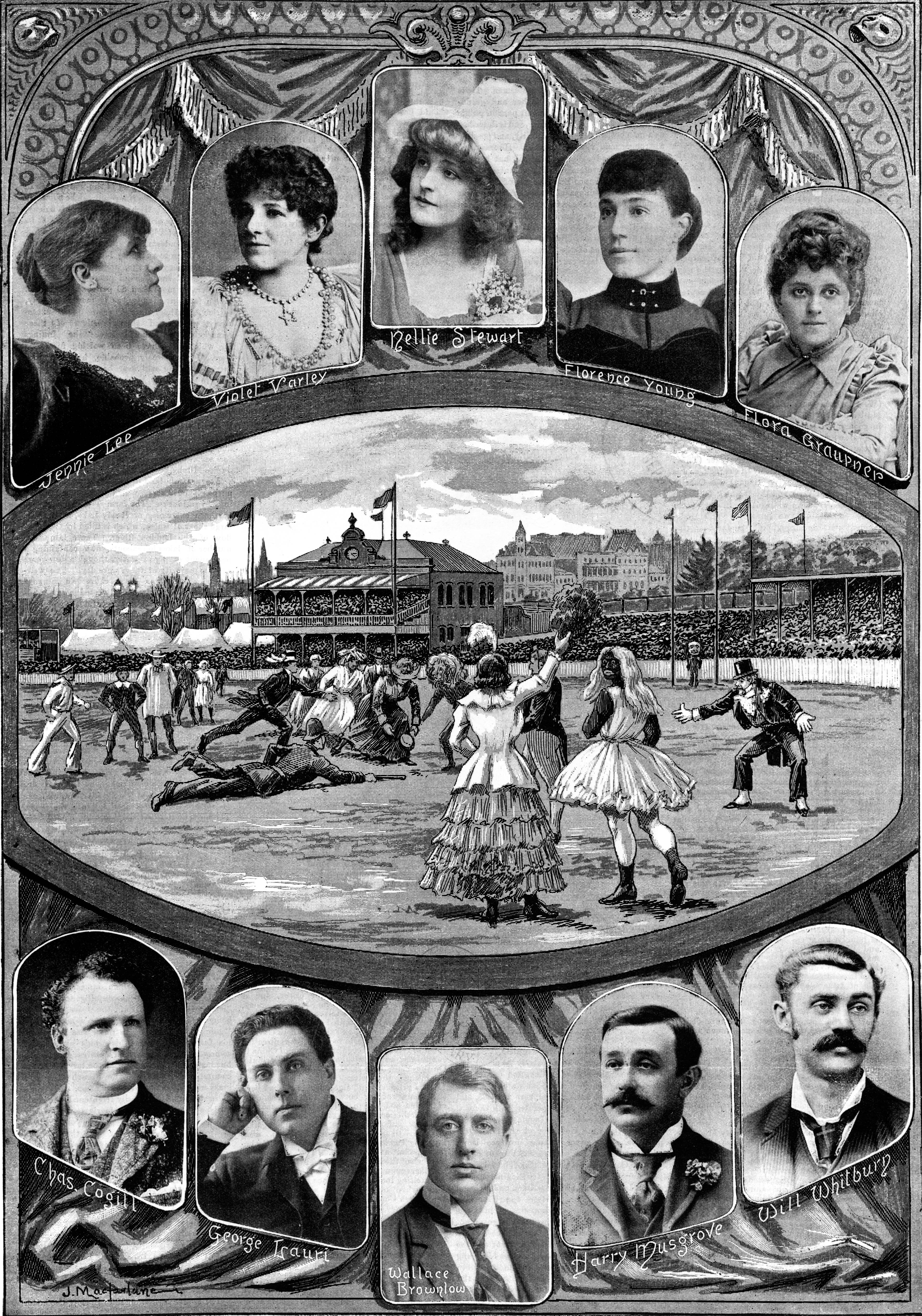 "The Dramatic Costume Football Match", illustration published on The Illustrated Australian News.